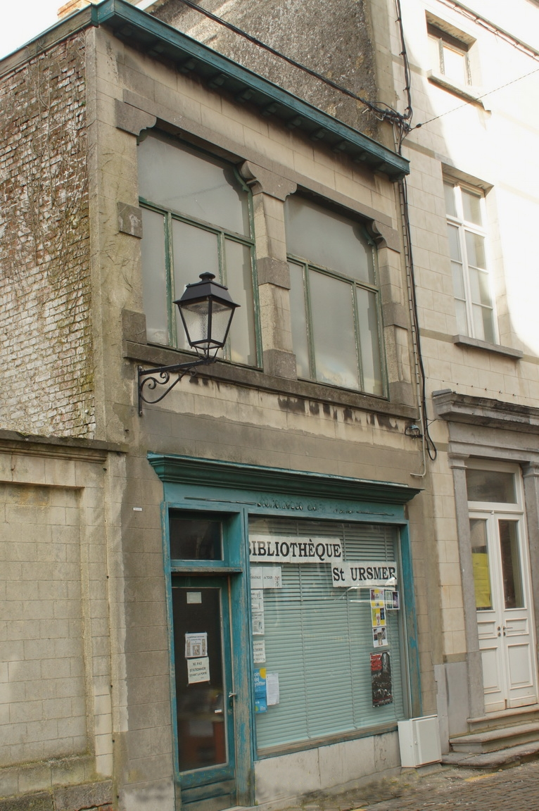 Bbibliothèque "Saint-Ursmer".